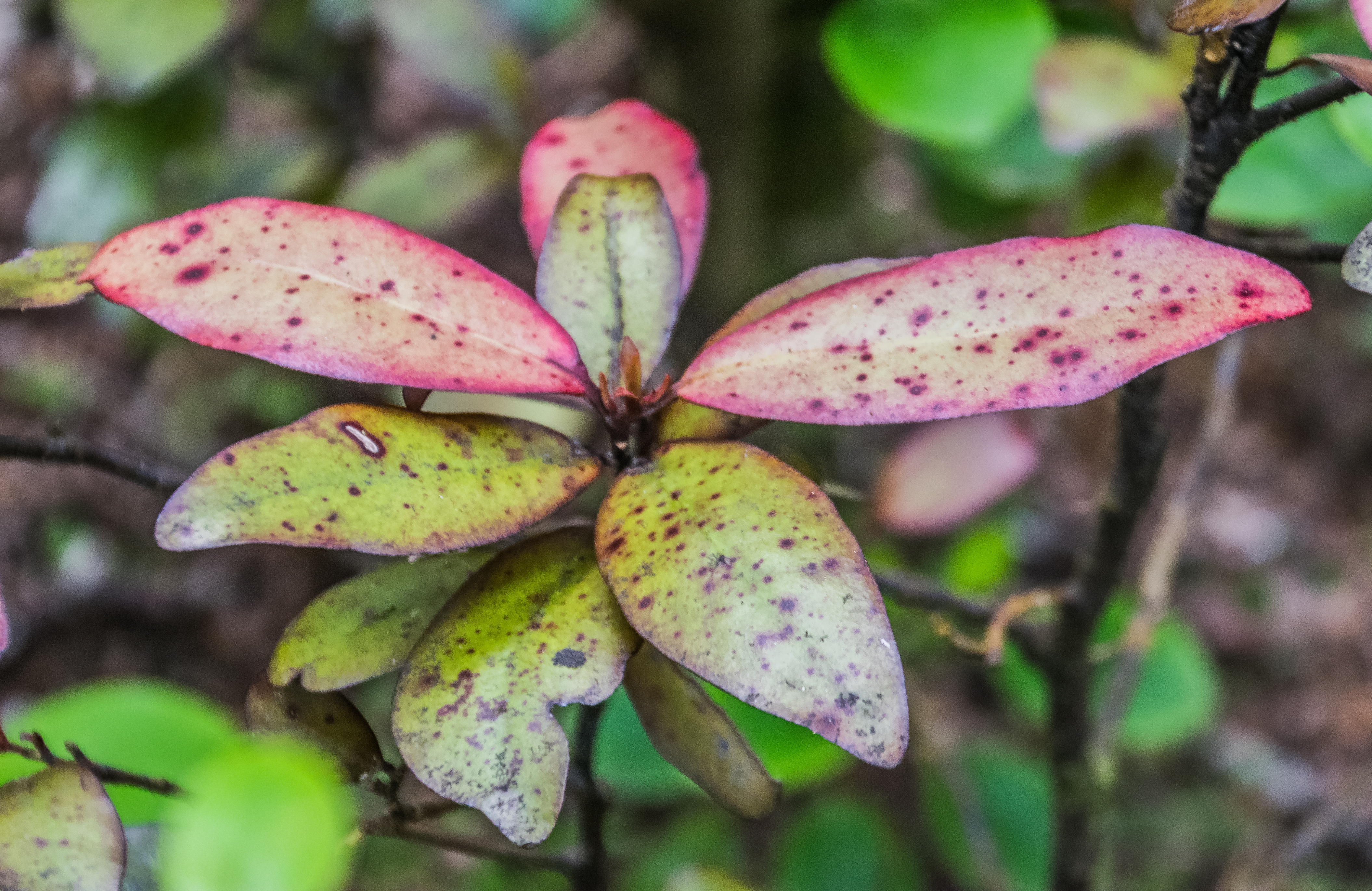 Pseudowintera colorata in Whakapapa Village in Tongariro National Park, Waikato Region, North Island of New Zealand